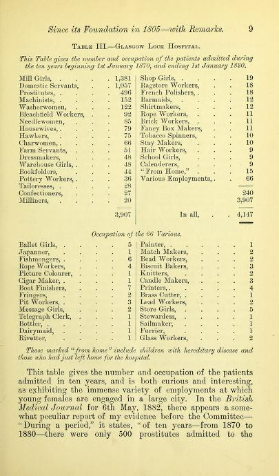 From Statistics of the Glasgow Lock Hospital from its foundation, 7th August 1805 to 31st December 1881 by Dr Alexander Paterson. Including occupations of women treated in the hospital